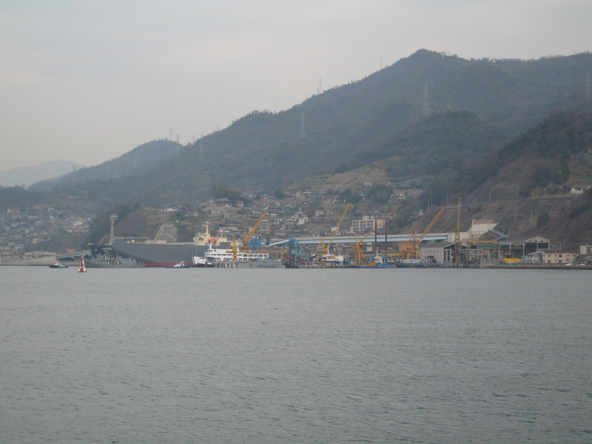 Main Factory of Kegoya Dock which is a shipbuilding company in Japan.